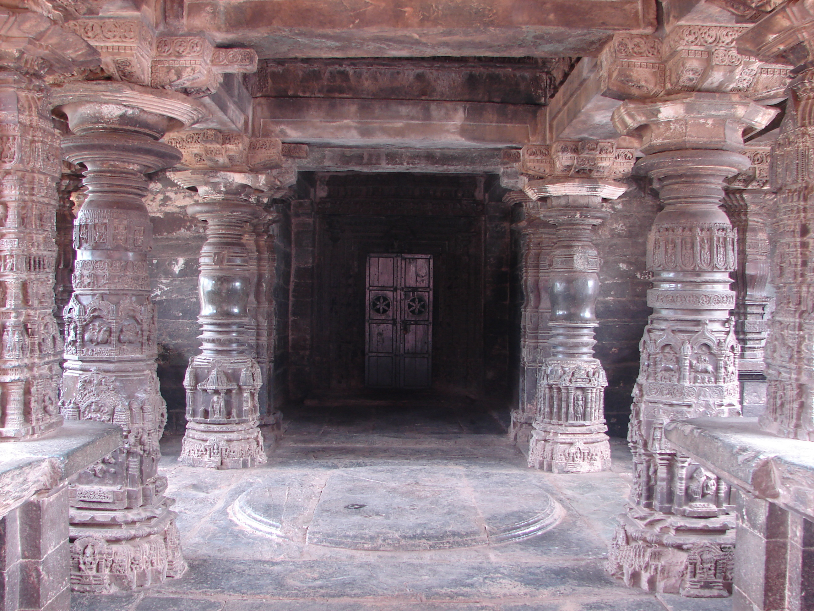 This photograph was taken by self (Dinesh Kannambadi) at the Saraswati temple in Gadag, Karnataka state, India in July 2007. This is an example of Gadag style pillars built by the Western Chalukyas (Kalyani Chalukyas)